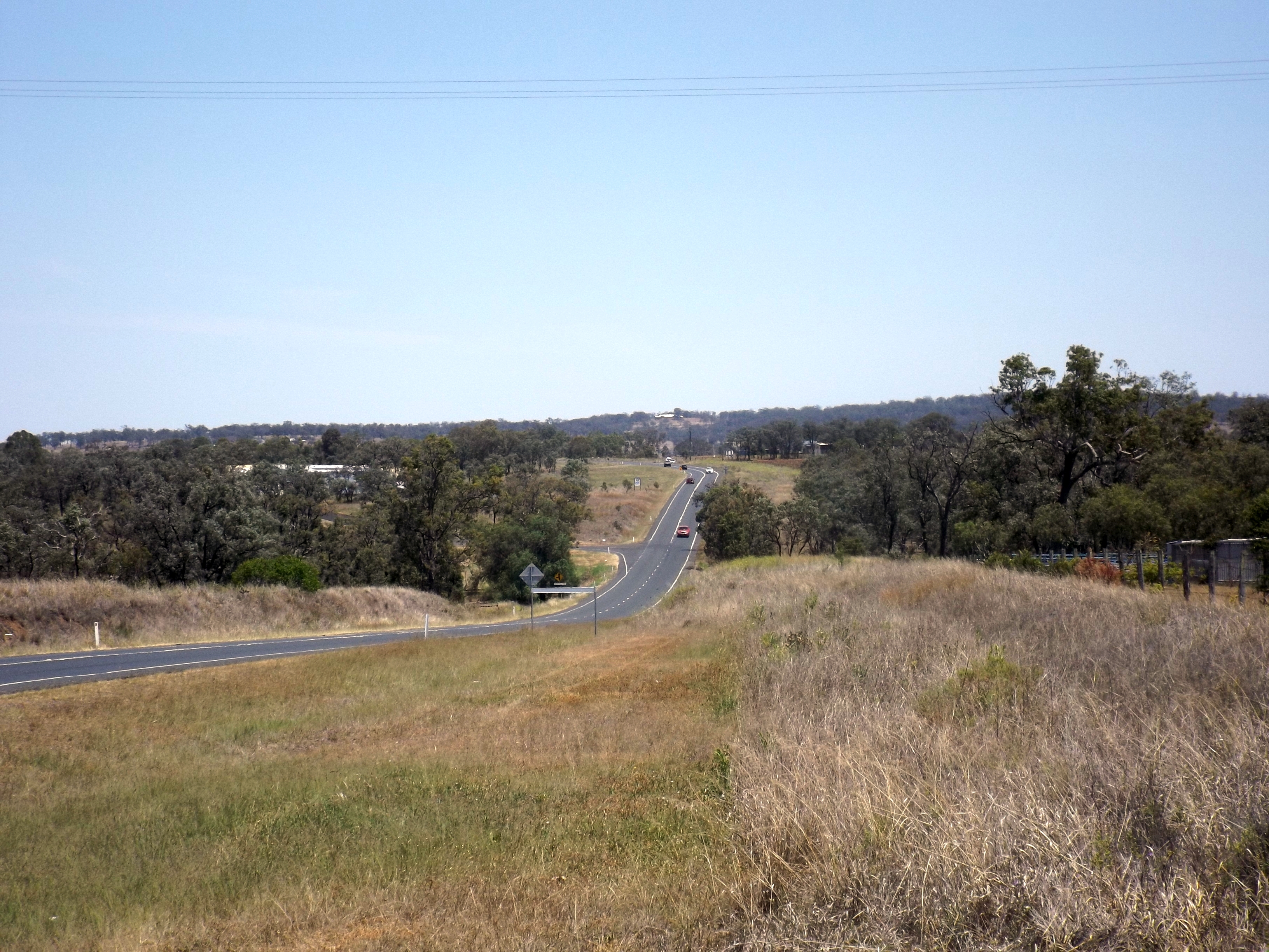 Gore Highway at Southbrook, Queensland, Australia. View is facing south from the intersection between the highway and Biddeston Southbrook Road.